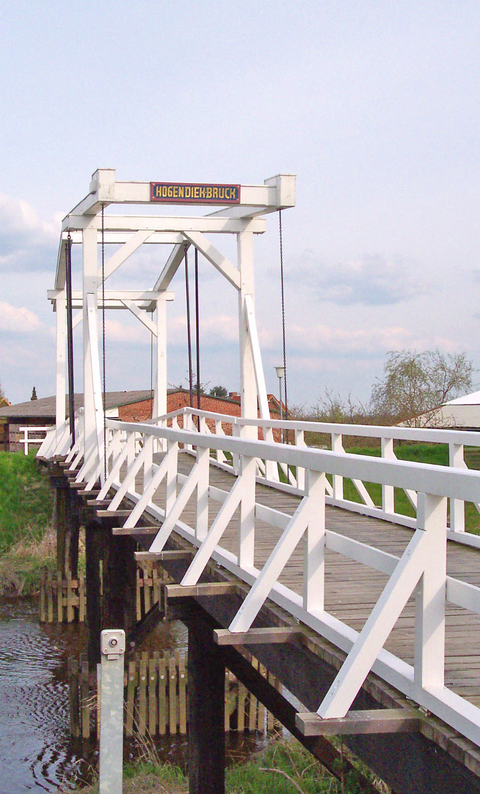 The Hogendiekbrück bridge in the village of Steinkirchen